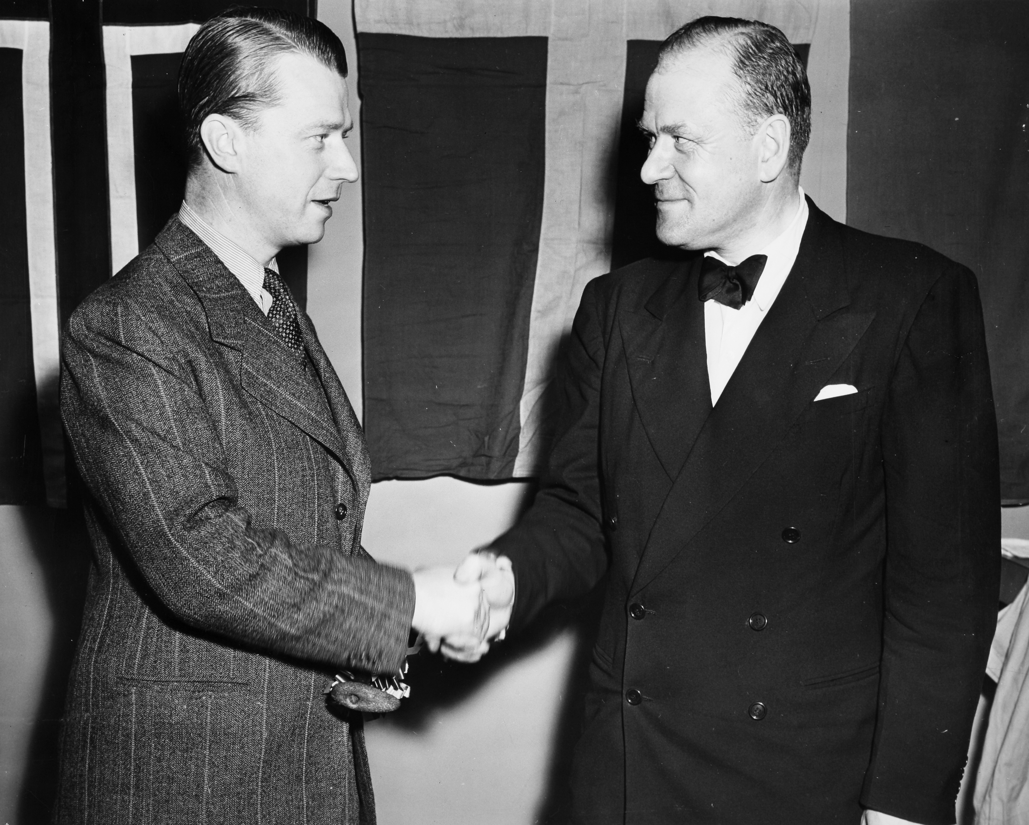 SAS, from left Per A. Norlin, SAS´s President and Lennart Nylander, Swedish Consul General in U.S. New York, September 1946.